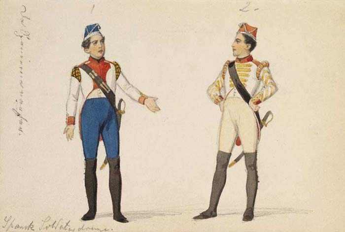 Costume drawings by Edvard Lehmann for Hans Christian Andersen's Da Spanierne var her.